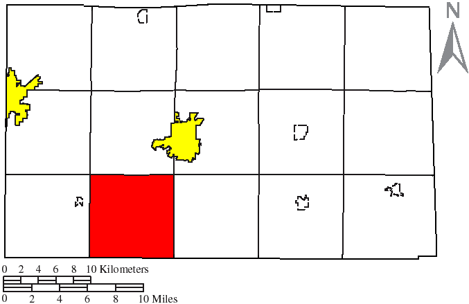 Made by the US Census and modified by myself